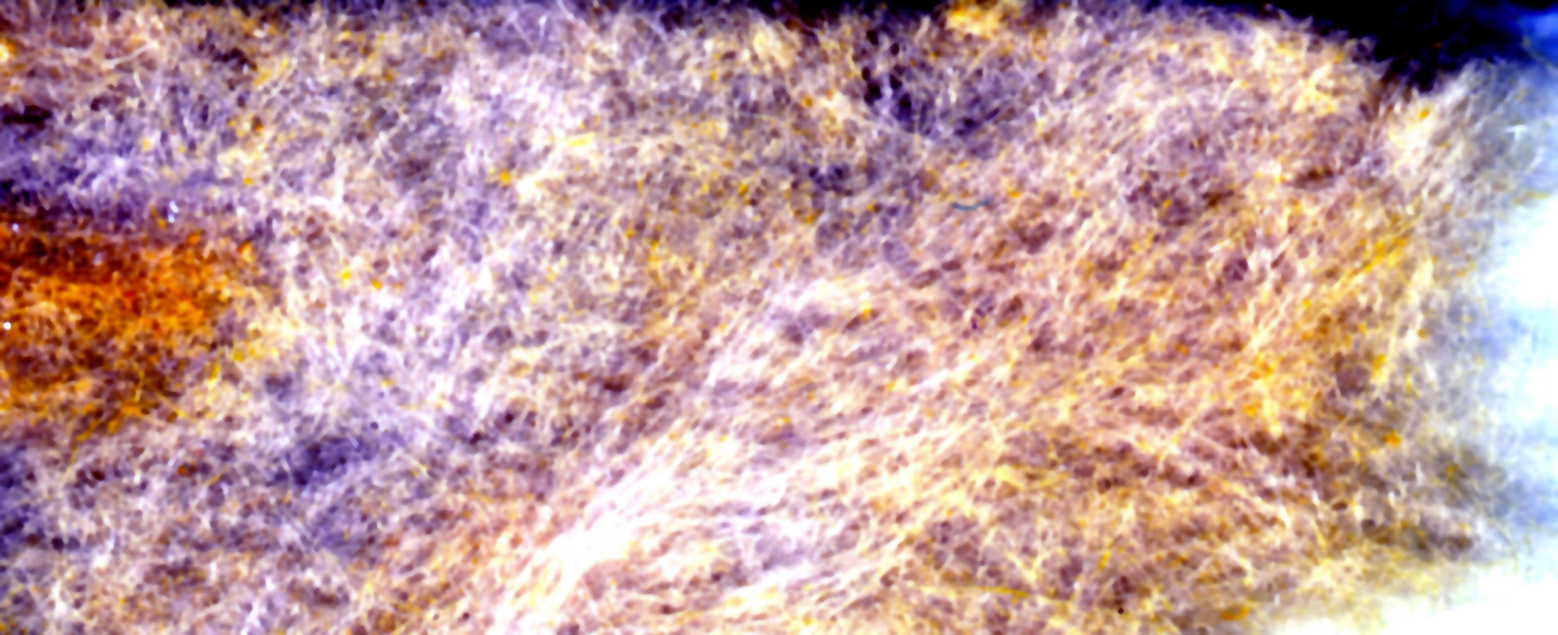 Fibreglass piece from a ceiling tile, scanned in at 2000dpi.